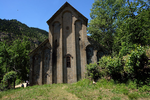 Parkhali in Tao-Klarjeti. The orthodox church from Tao-Clarjeti - the old teritories of Georgia (now Turkey) You can’t find such a great basilica in Georgia. It was built by David III Kurapalati in the 10th century. Now here is mosque